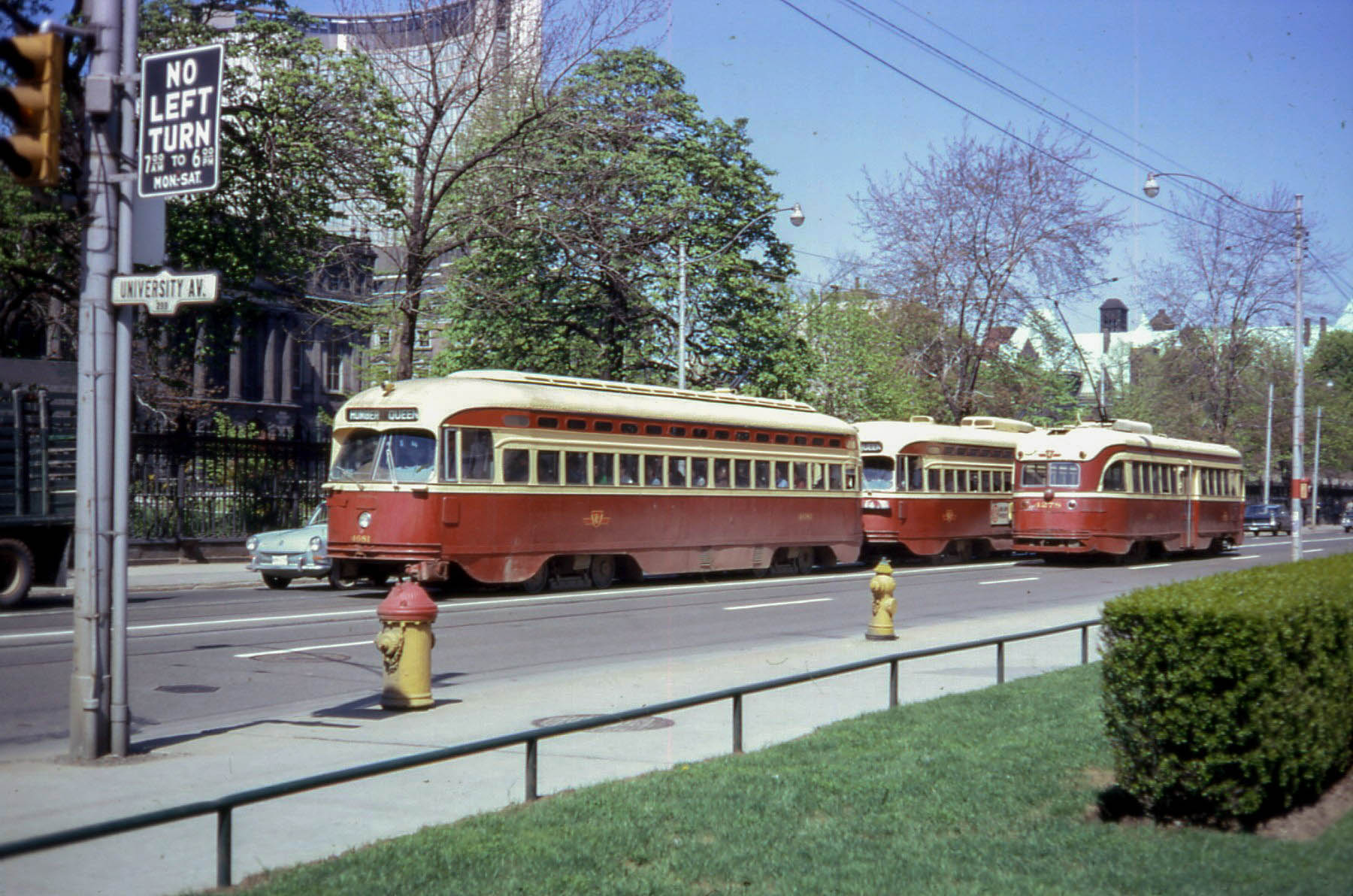 19680510 60 TTC Streetcars Queen St. @ University Ave.